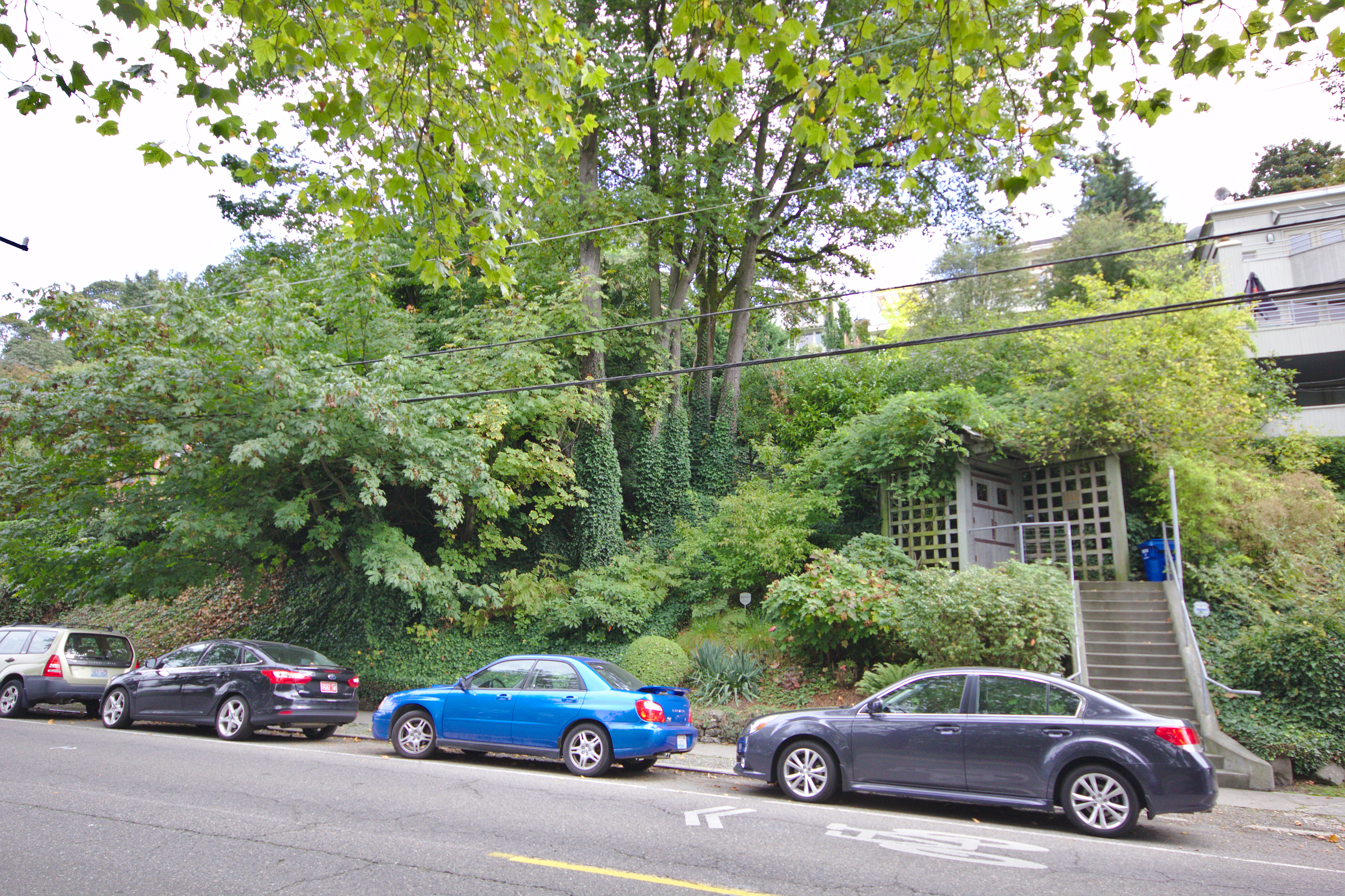 Lakeview Place, a tiny, inaccessible park on Lakebview Blvd E in Seattle Washington.